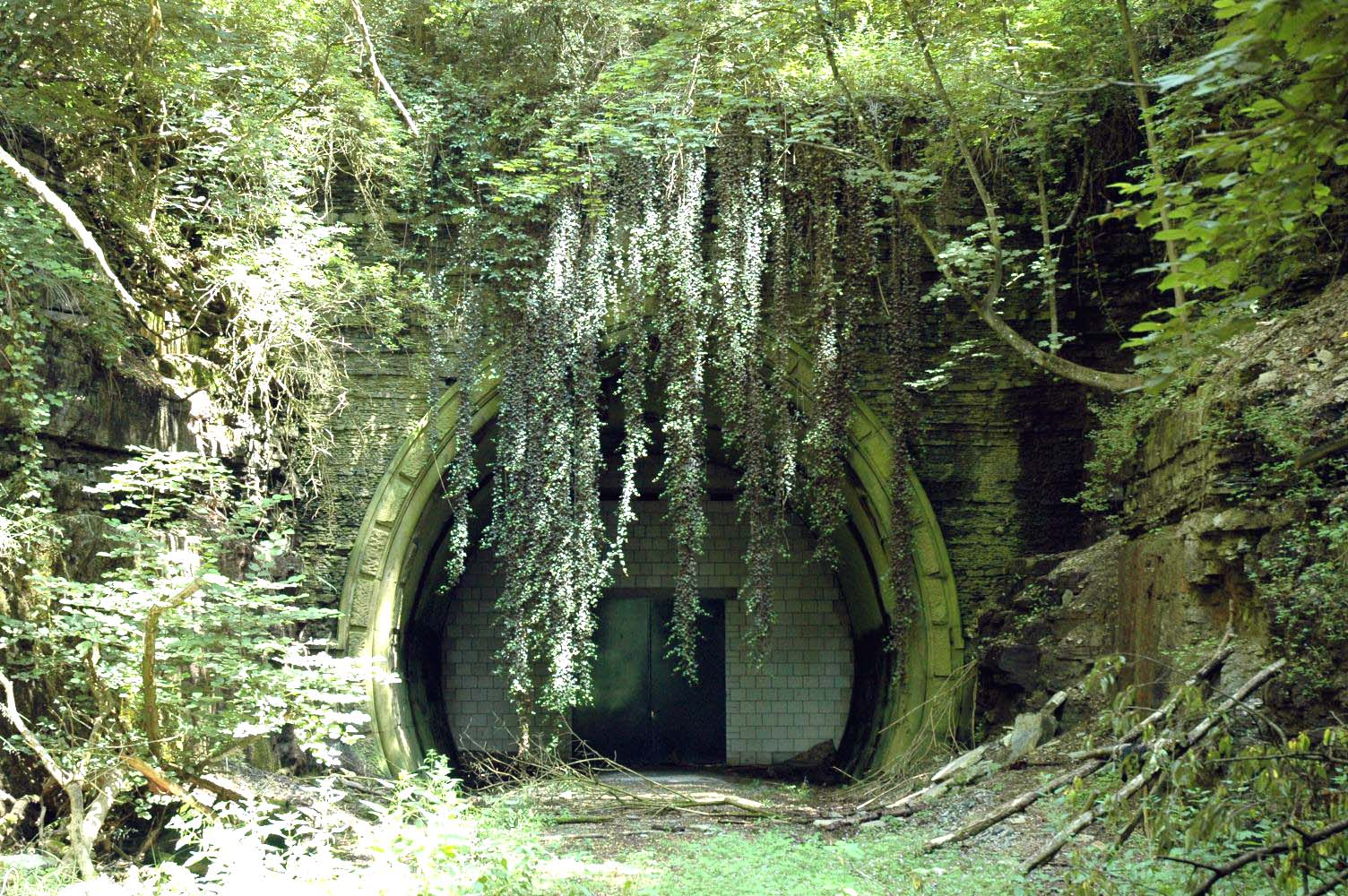 western entry of the railway tunnel of Mörtelstein between Obrigheim-Asbach and Obrigheim-Mörtelstein.